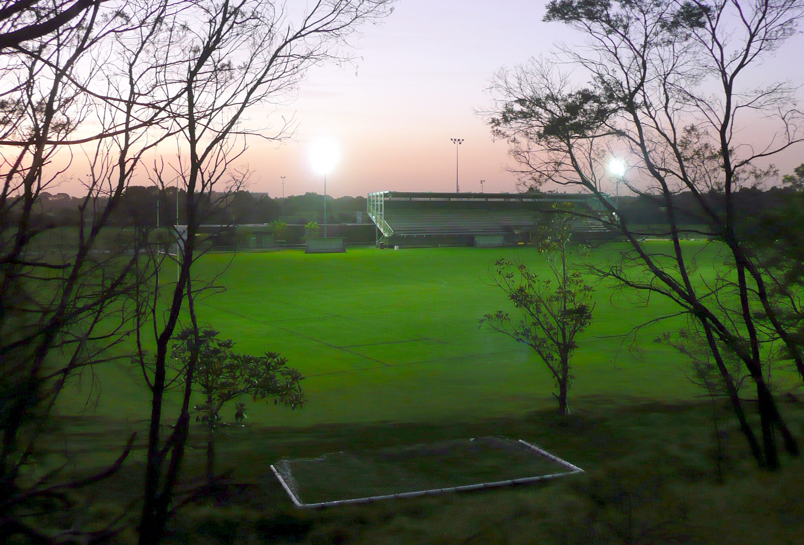 Oval in Daceyville, Sydney